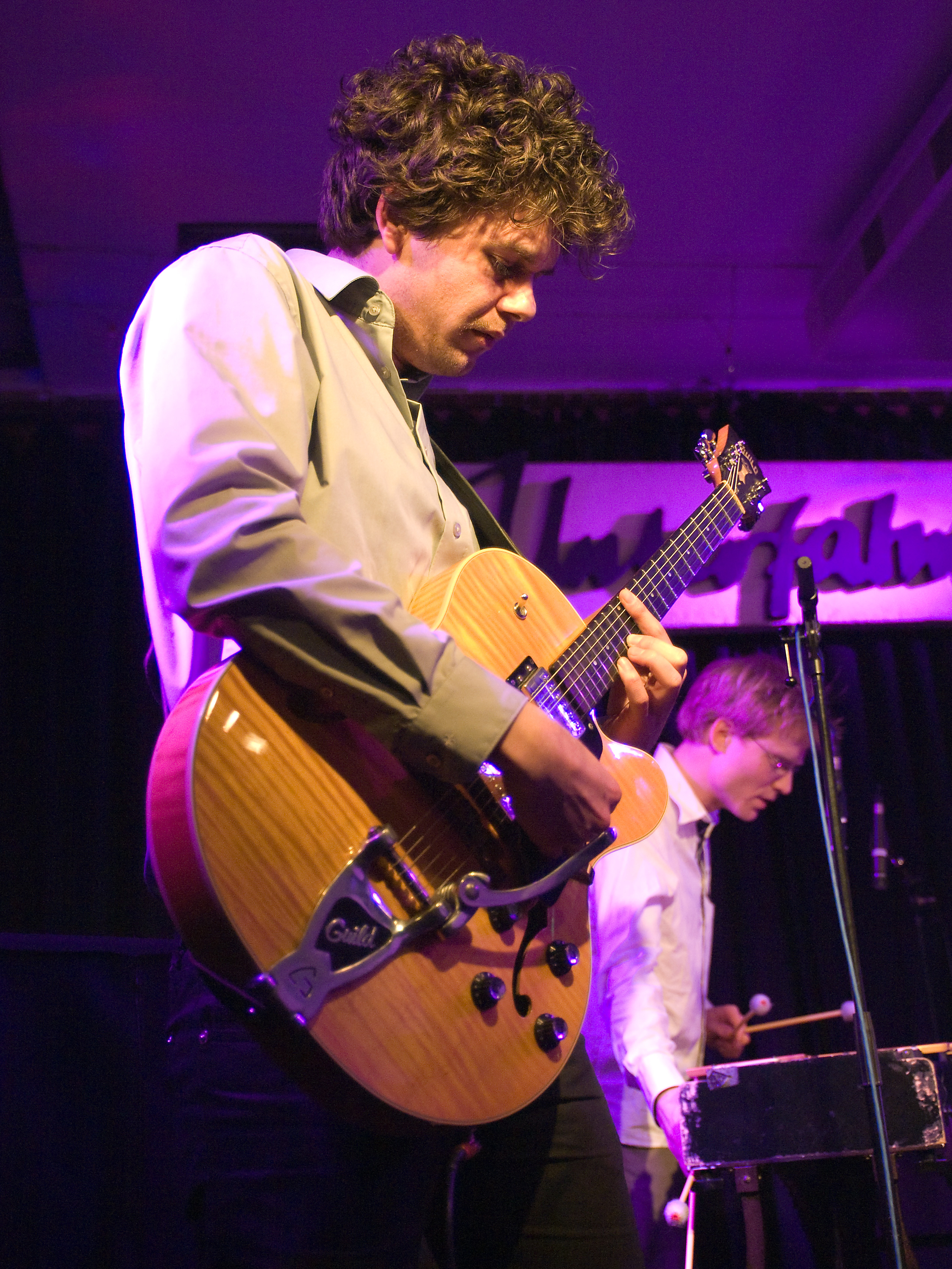 Samuel Halscheidt, Jazz guitarist; Picture taken in Jazz Club Unterfahrt, Munich/Bavaria